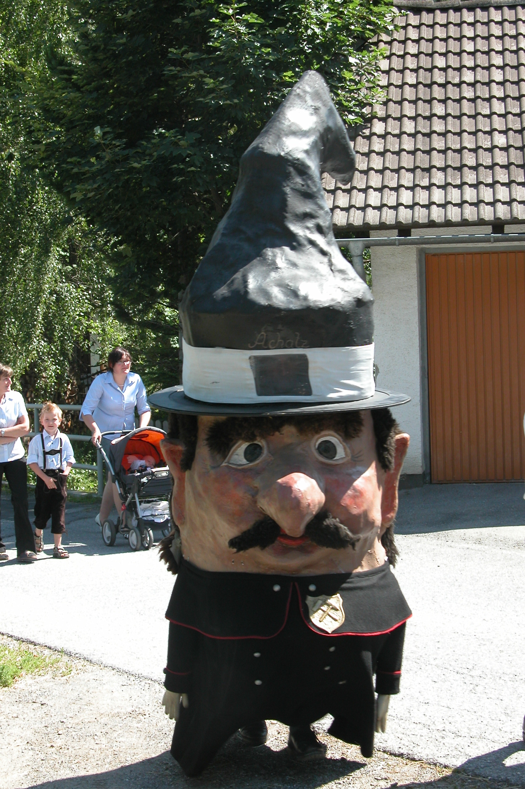 Great Giant Samon Parade in Ramingstein-Kendelbruck, Land Salzburg, Austria